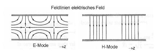 This simple diagram image could be re-created using vector graphics as an SVG file. This has several advantages; see Commons:Media for cleanup for more information. If an SVG form of this image is available, please upload it and afterwards replace this template with vector version available|new image name . It is recommended to name the SVG file "OMT Bild2 EundHMode.svg" - then the template Vector version available (or Vva) does not need the new image name parameter. This simple diagram image was uploaded in the JPEG format even though it consists of non-photographic data. This information could be stored more efficiently or accurately in the PNG or SVG format. If possible, please upload a PNG or SVG version of this image without compression artifacts, derived from a non-JPEG source (or with existing artifacts removed). After doing so, please tag the JPEG version with Superseded|NewImage.ext and remove this tag. This tag should not be applied to photographs or scans. For more information, see BadJPEG .